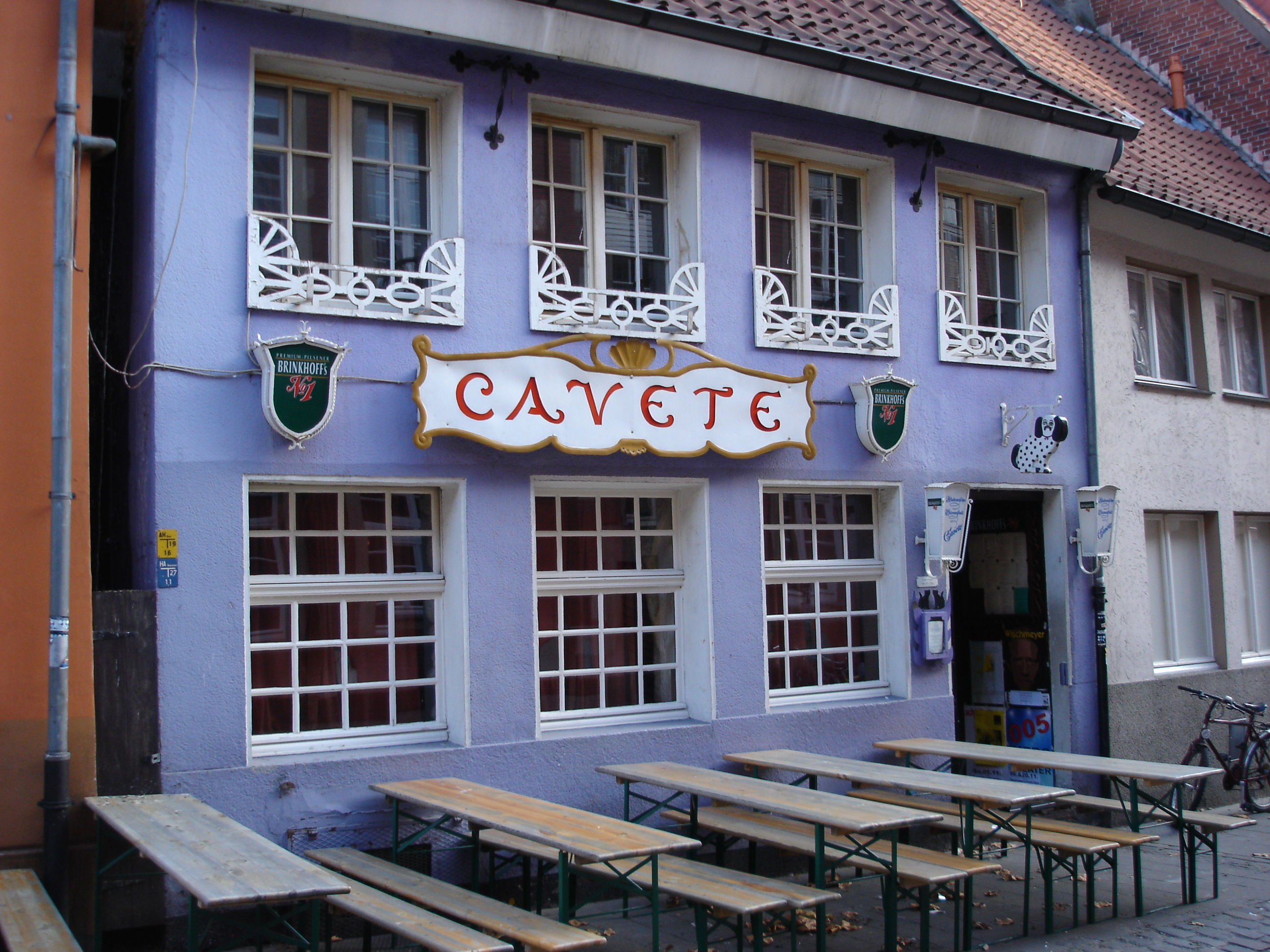 Pub "Cavete" in the Kuhviertel of Münster (Westphalia), Germany